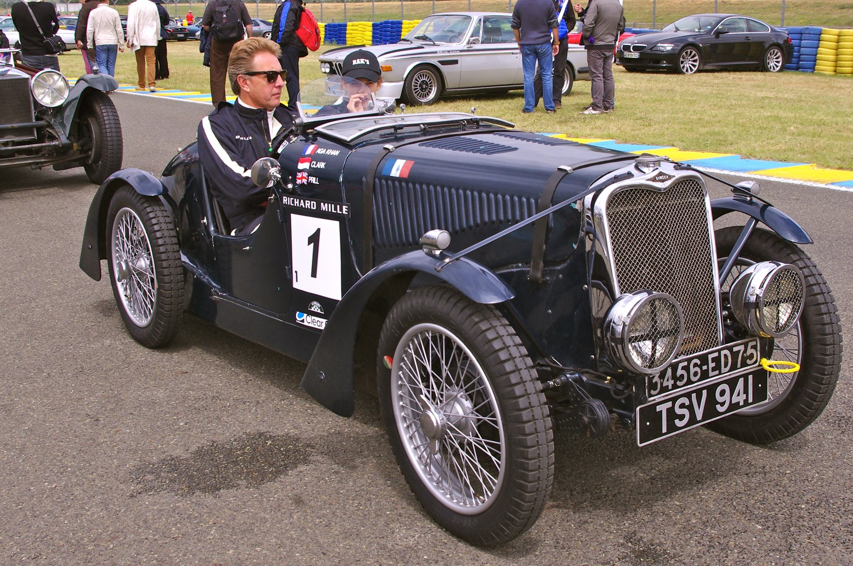 Singer Le Mans Savoye Special Reg Number: TSV 941 Chassis Number: 5246 Engine Number: 6016 Cc: 972 Body Colour: Blue Trim Colour: Blue / Black Appreciating that some of their customers clamouring for the performance of the company's Le Mans model also required more than two seats, Singer introduced a limited run of four-seater examples during the 1935 model year. Effectively a hybrid of the Le Mans and the 9 Sports, they featured upswept cowl scuttles and a streamlined (`Long') tail. It was from the wreck of one of these that Frenchman Jacques Savoye built his renowned `Savoye Special', that is now offered for sale. Savoye started importing British cars to France in 1934 and was appointed agent for both the Morgan and Singer marques. Singer Le Mans Chassis 5246 was purchased by Savoye after being written off in an accident with a lorry. He straightened the chassis, salvaged all the usable parts and set about modifying the car for competition. In order to extract more power from the little 972cc OHC engine, he reworked the cylinder head, lightened the connecting rods and raised the compression ratio to in excess of 10:1. Thinking ahead, he acquired a range of rear axle ratios to suit different circuits. He also fashioned his own streamlined body in the fastback style of the day - it was constructed from aluminium over a lightweight wooden frame. By devoting all his spare time to the project, his `Savoye Special' was finally ready to race by the end of May 1937 and was duly entered for the Cote d'Ars event. Still in bare metal, it achieved the fastest time in the up to 2,000cc class. Source